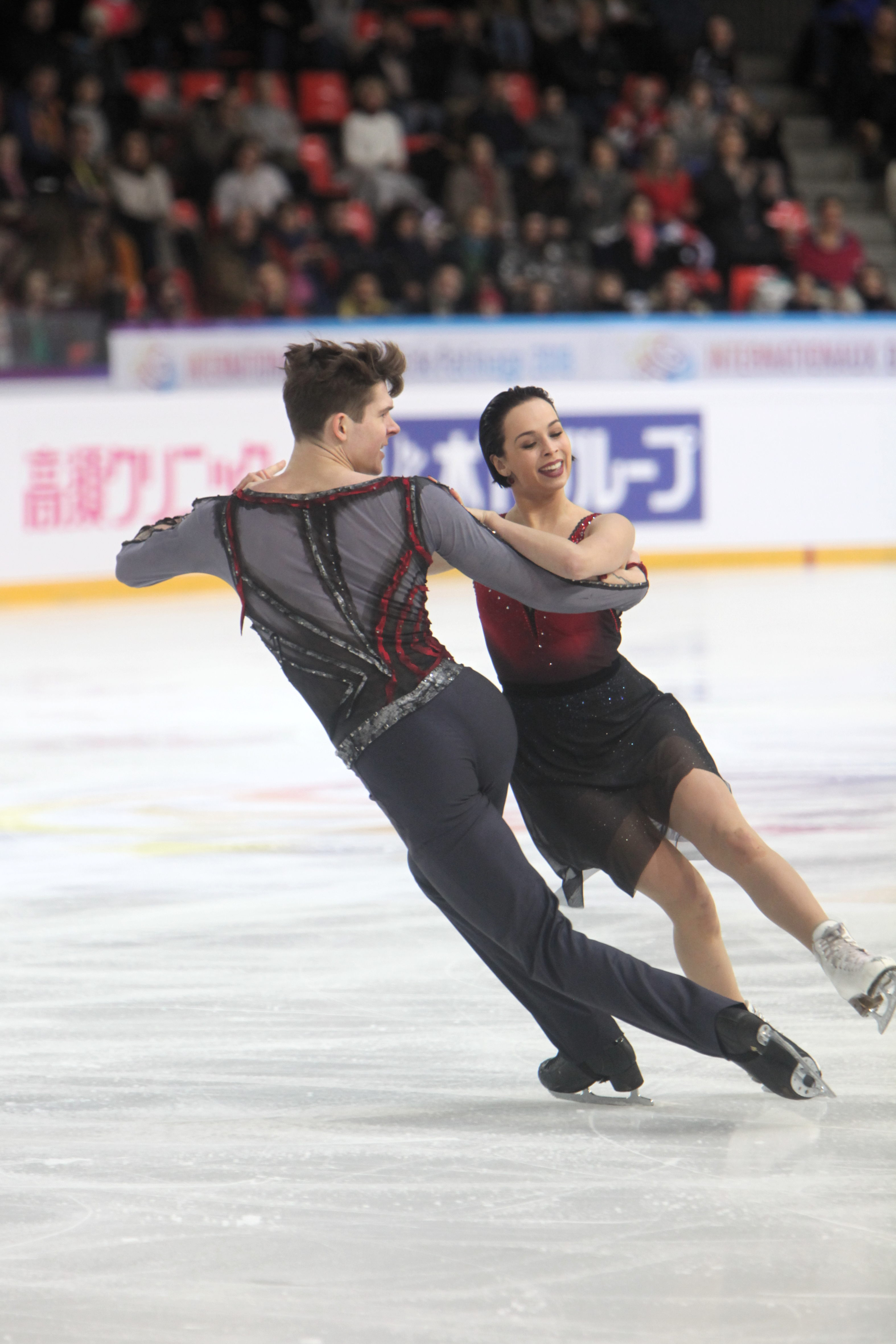 Betina Popova and Sergey Mozgov during the Free Dance at the Internationaux de France de Patinage 2018.